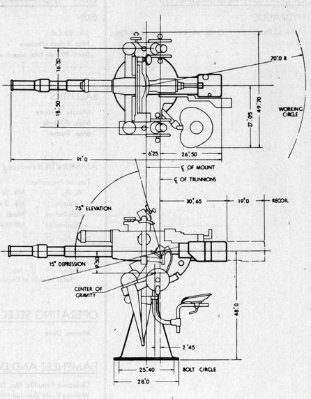 Diagram of a United States Navy 3"/23 caliber gun - Mk. 14 Mod. 11